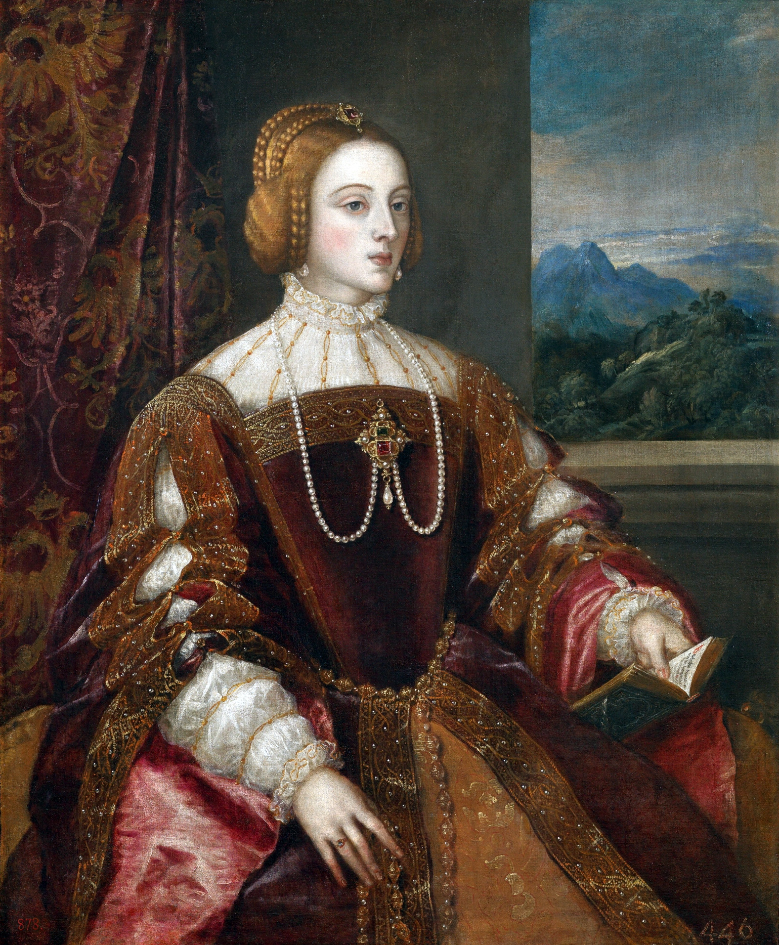 Titian, Empress Isabel of Portugal, 1548, oil on canvas, 117 x 98 cm, Prado museum (Madrid, Spain)